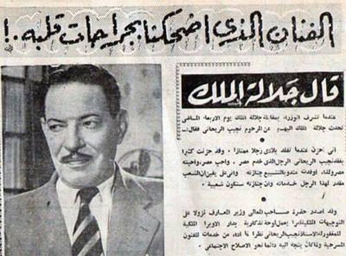 King Farouk I of Egypt Obituary for Naguib el-Rihani.